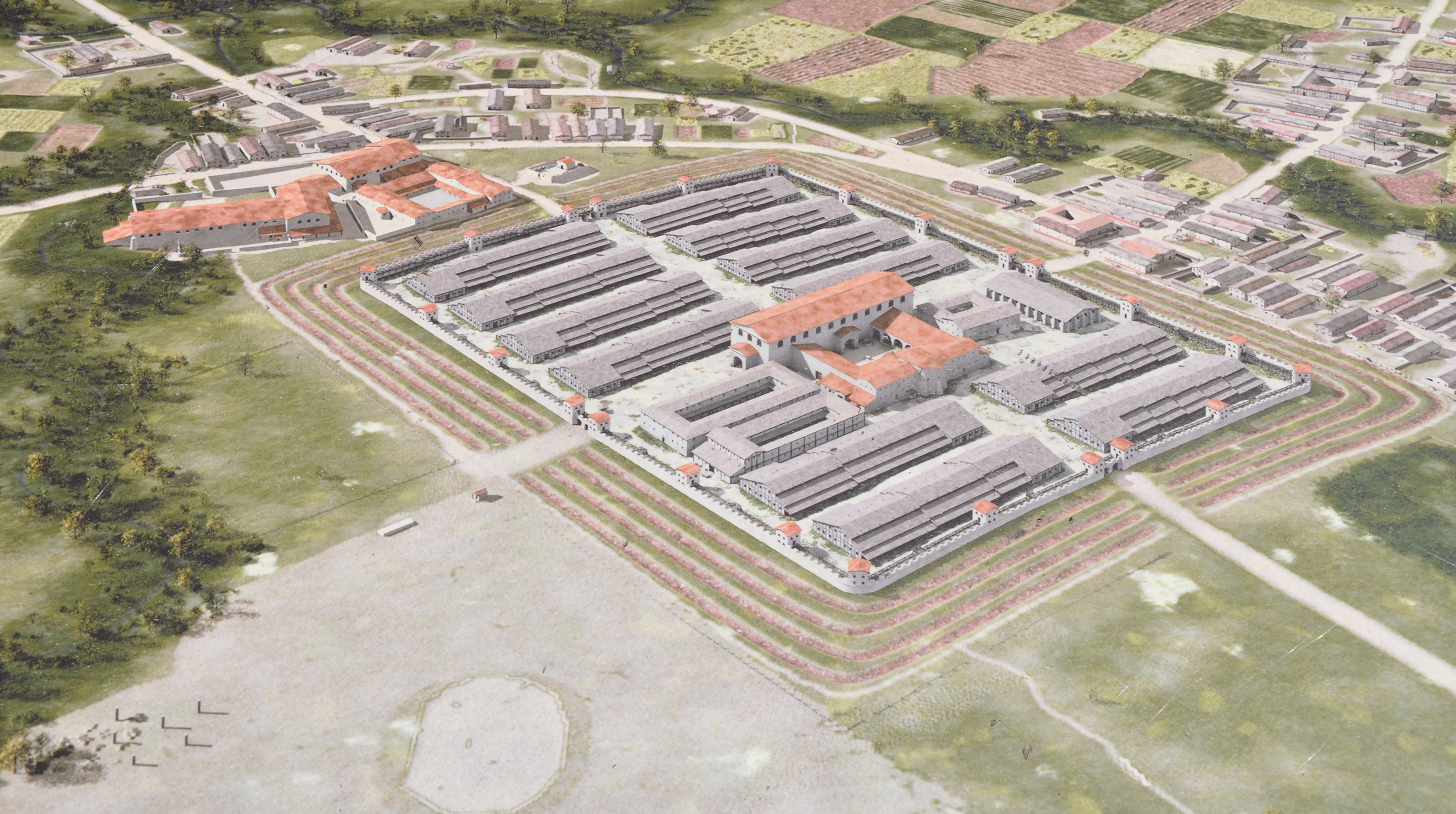 Computer reconstruction of Kastell Aalen, the largest cavalry fort (castellum) along the limes occupied by the Ala II Flavia Miliaria Pia Fidelis, Raetian Limes, Germany